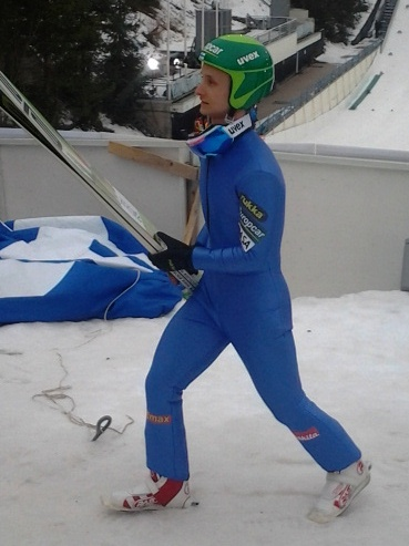 Finnish nordic combined skier Eetu Vähäsöyrinki at Lahti Ski Games 2014.